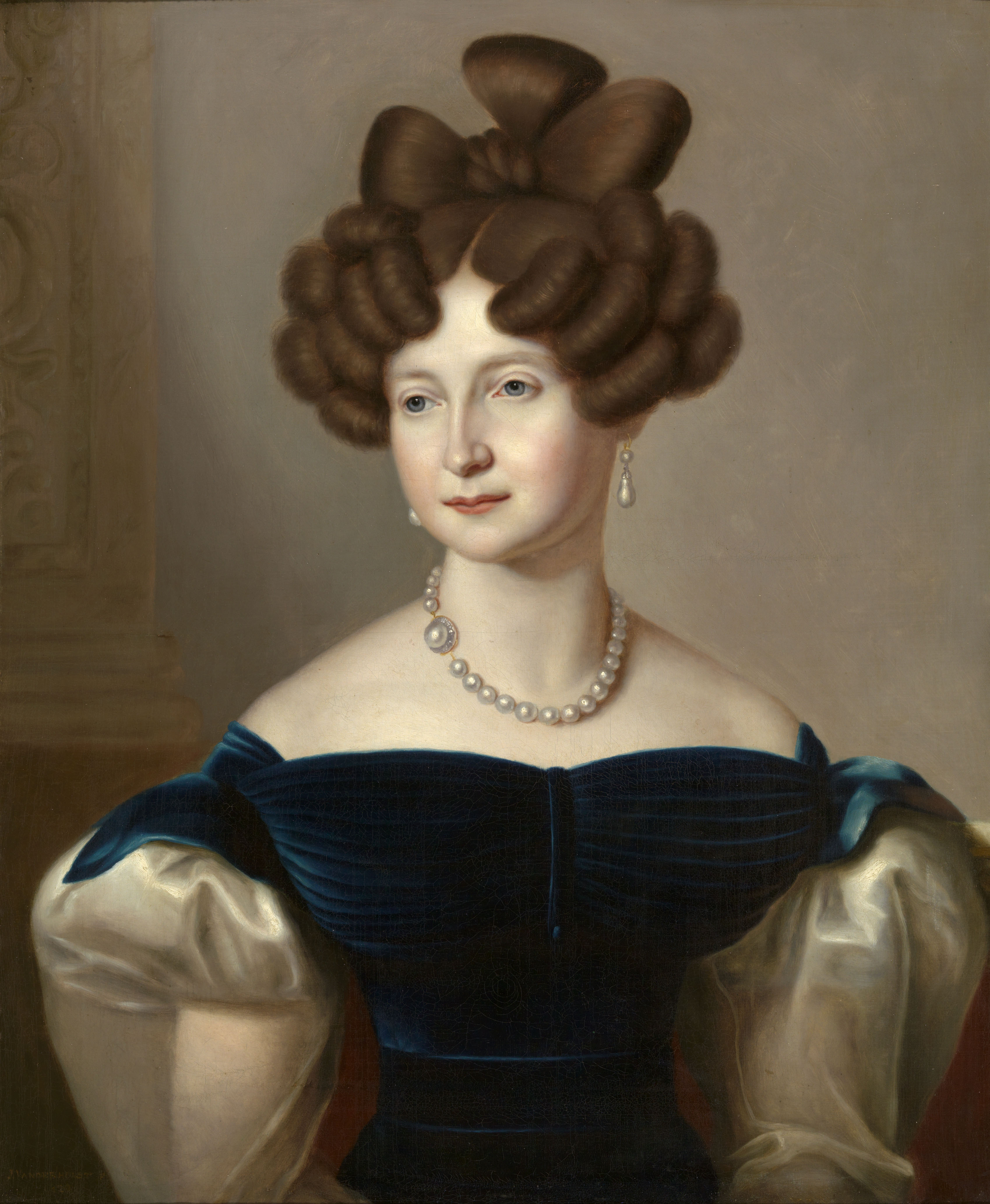 Anna Pavlovna, Grand-Duchess of Russia (1795-1865)